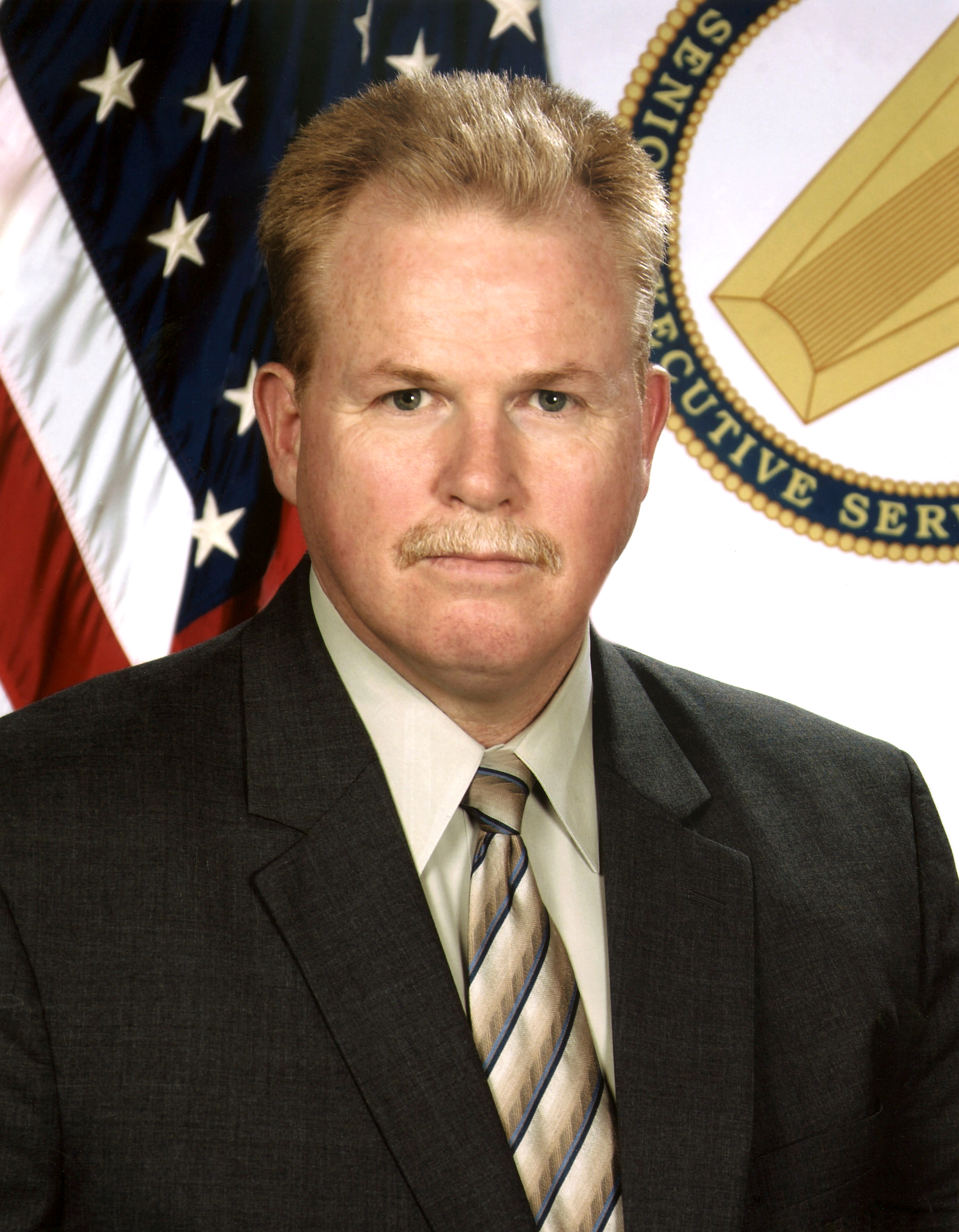 Henry J. Muller, Jr., Director, Communications-Electronics Research, Development and Engineering Center (CERDEC)